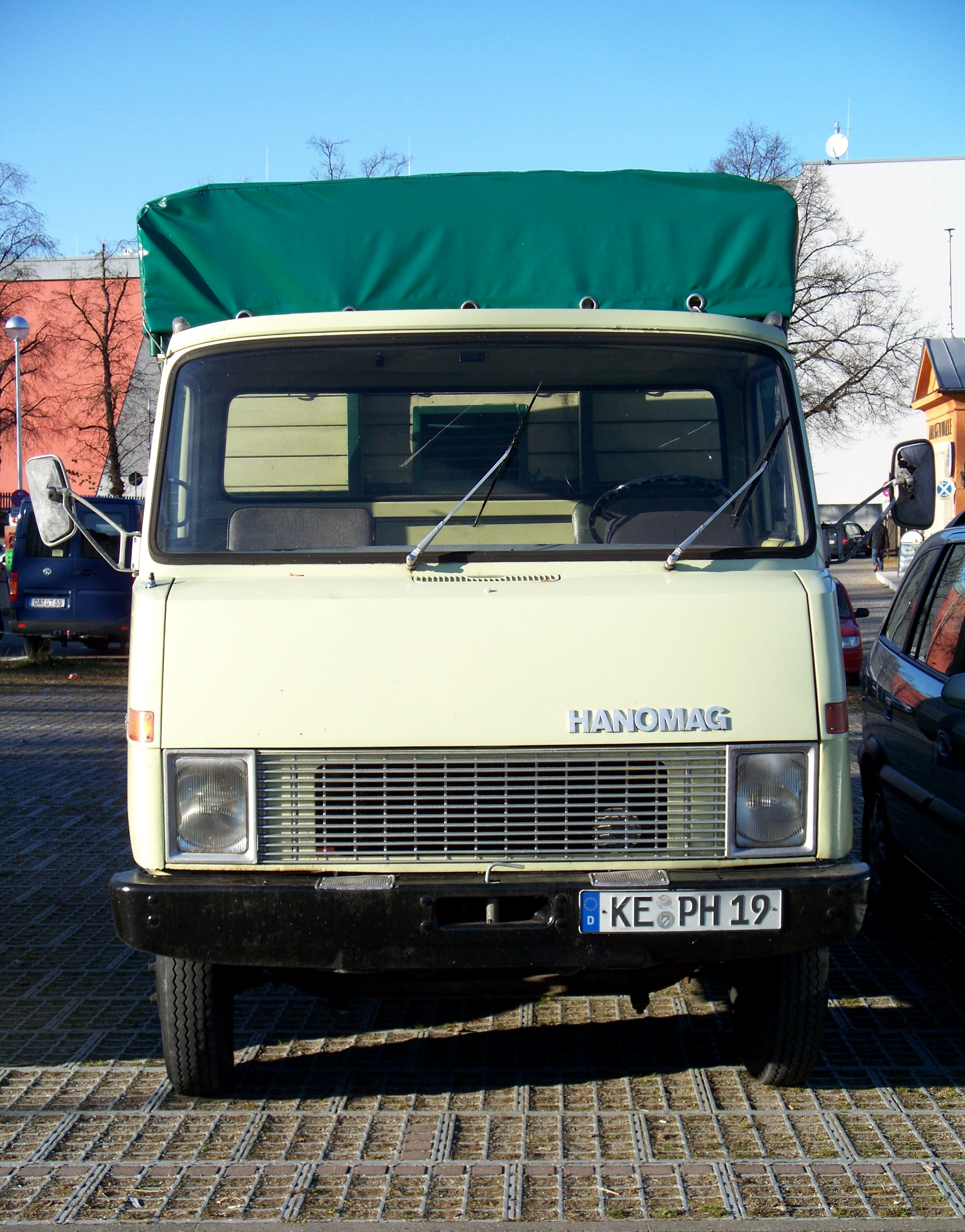 Hanomag F in Germany.